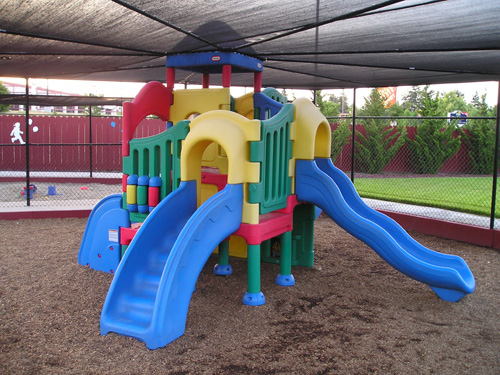 Combination playground equipment (plastic)